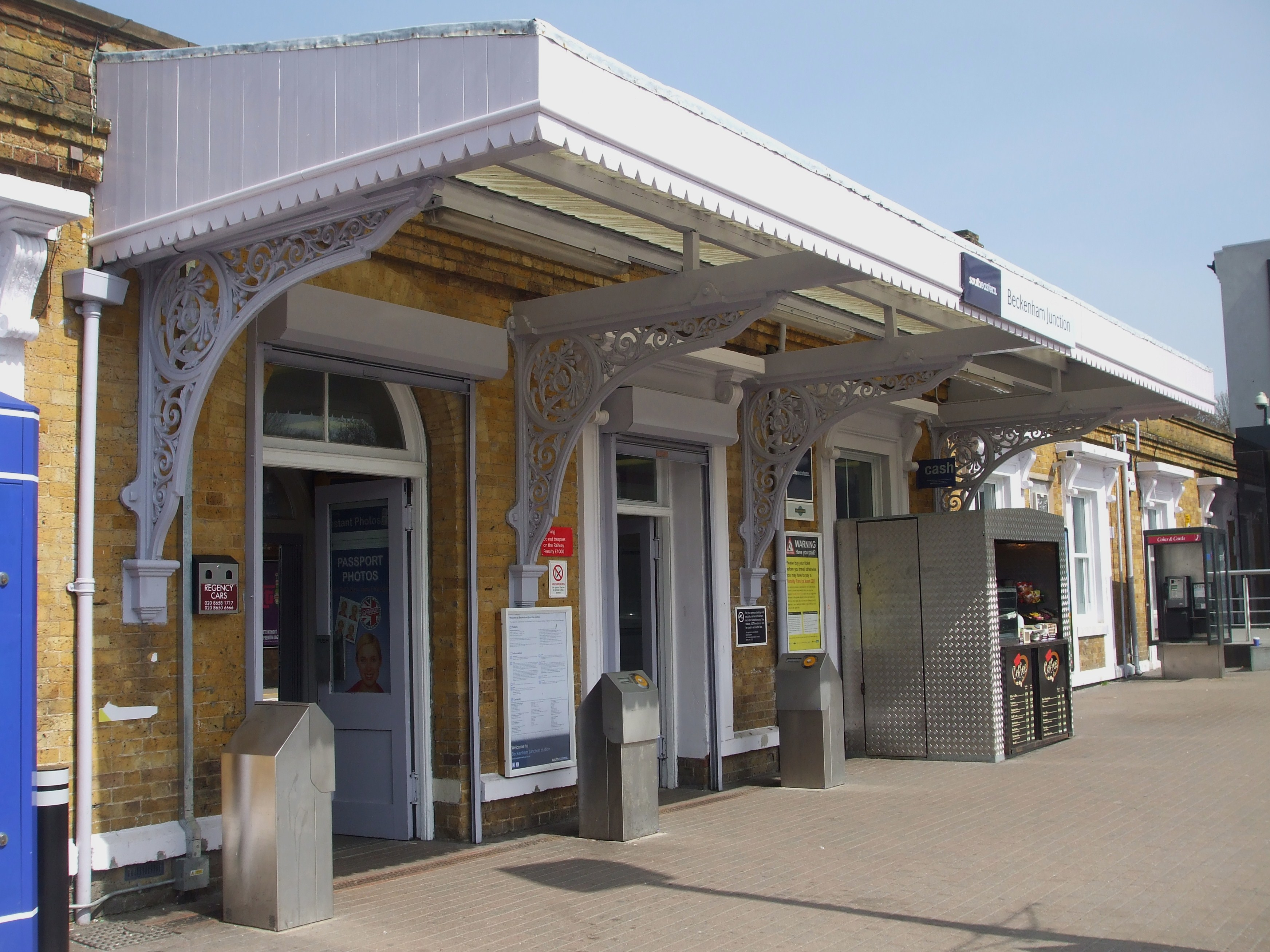 Beckenham Junction main-line station main entrance on the London-bound side.